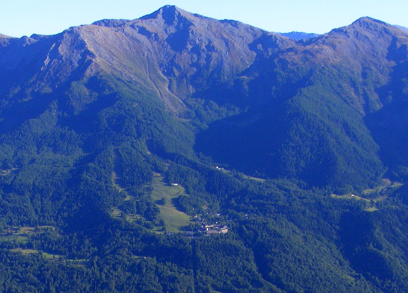 Frais di Chiomonte (TO, Italy), seen from Val Clarea